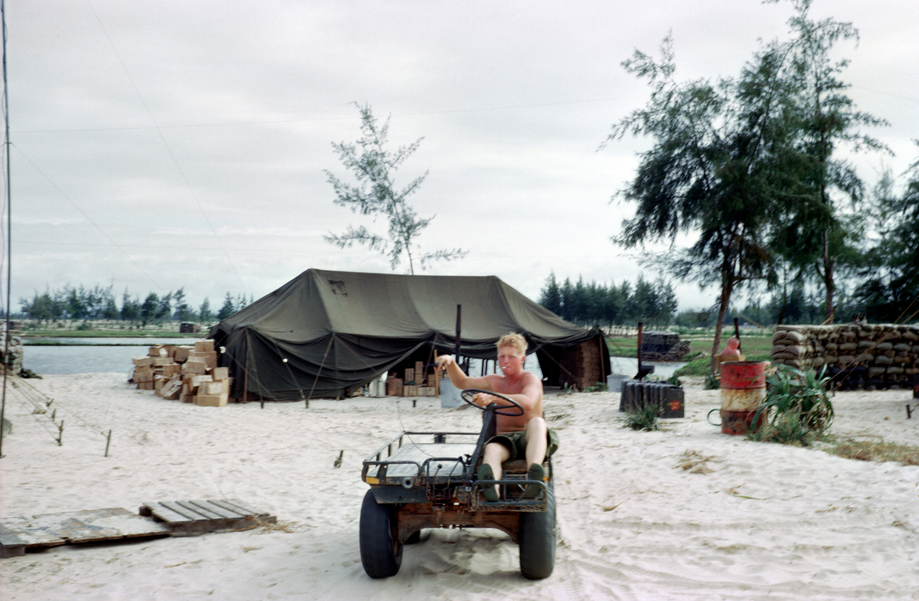 A U.S. Marine operates an M274 utility platform truck in the bulk fuel area at Cua Viet. The M274 is commonly referred to as a "mechanical mule."